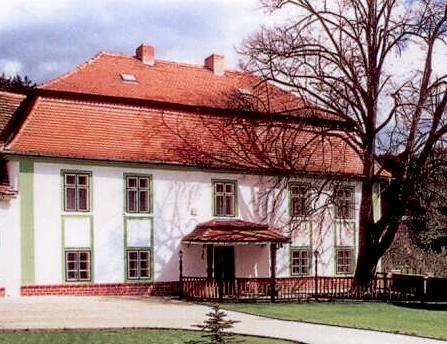 Castle No 1 in Deštnice